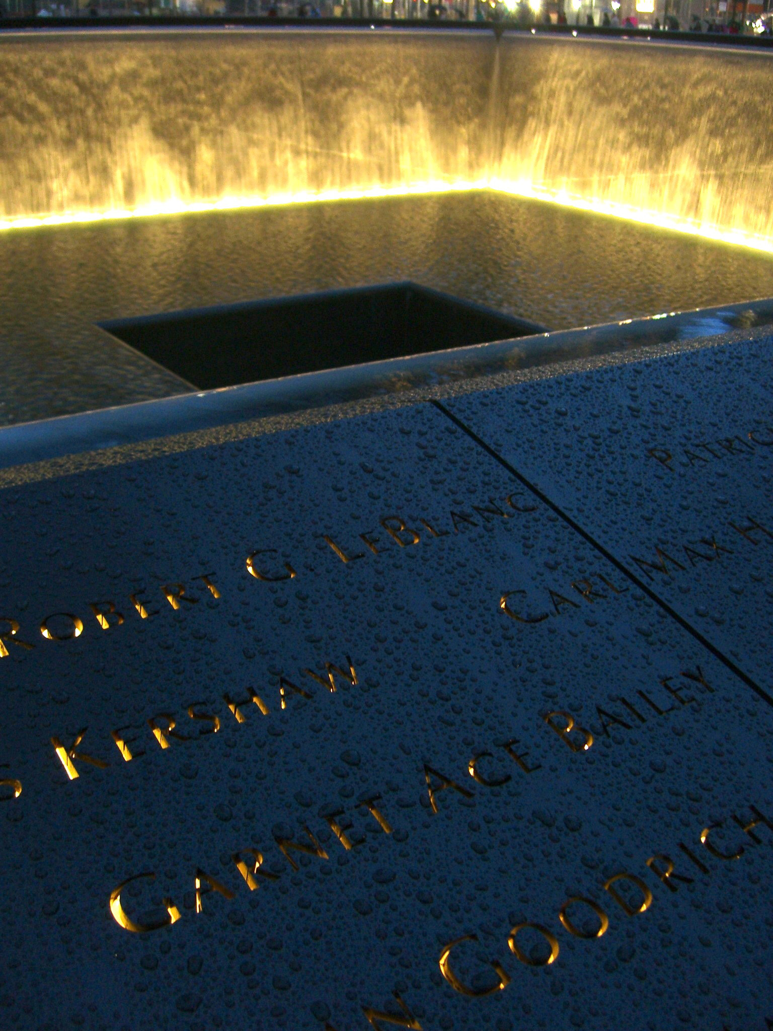 The name of Garnet Bailey is seen among those of other 9/11 victims from United Airlines Flight 175 inscribed on bronze panel S-3 of the South Pool of the National September 11 Memorial in Manhattan, on December 6, 2011. This photo was created by Luigi Novi. If you have any questions, you can contact me by sending me an email or User talk:Nightscream